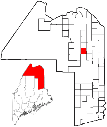 Adapted from U.S. Census Bureau maps (American FactFinder) and Wikipedia's ME county maps by Bumm13.